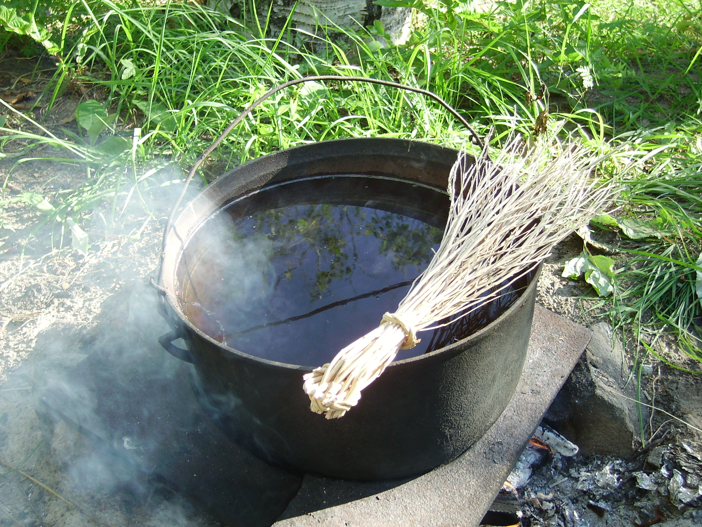 Cast iron pot on fire with a wooden whisk